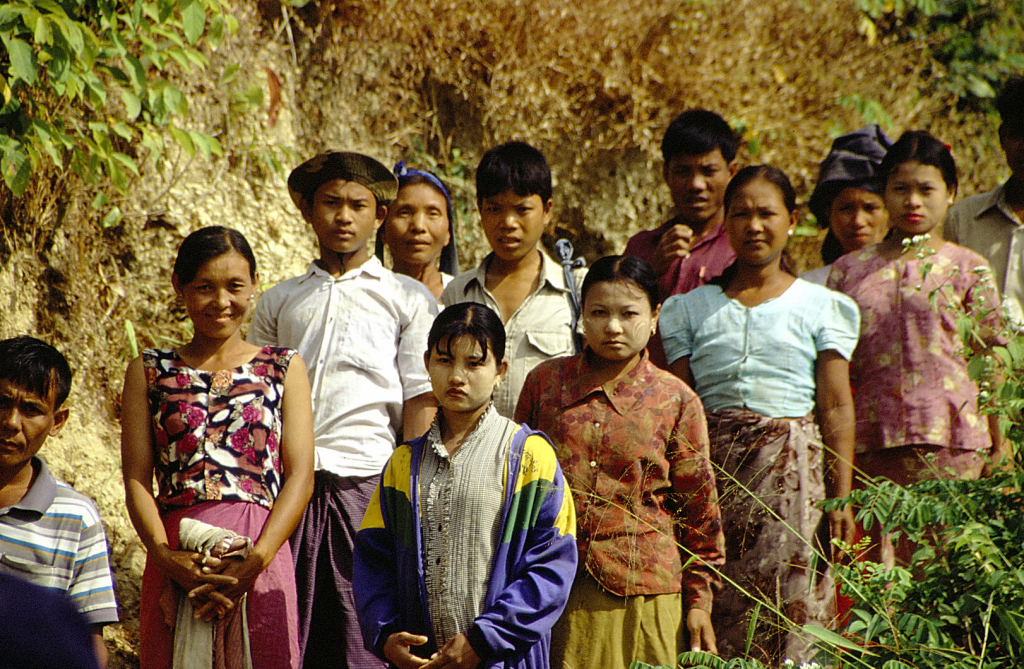 Chin village, Burma